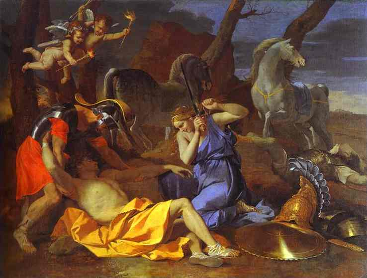 Low resolution image of 2D artwork Tancred and Erminia by Nicolas Poussin (died 1665) Original artwork owned by The Trustees of the Barber Institute of Fine Arts, The University of Birmingham, Birmingham, UK